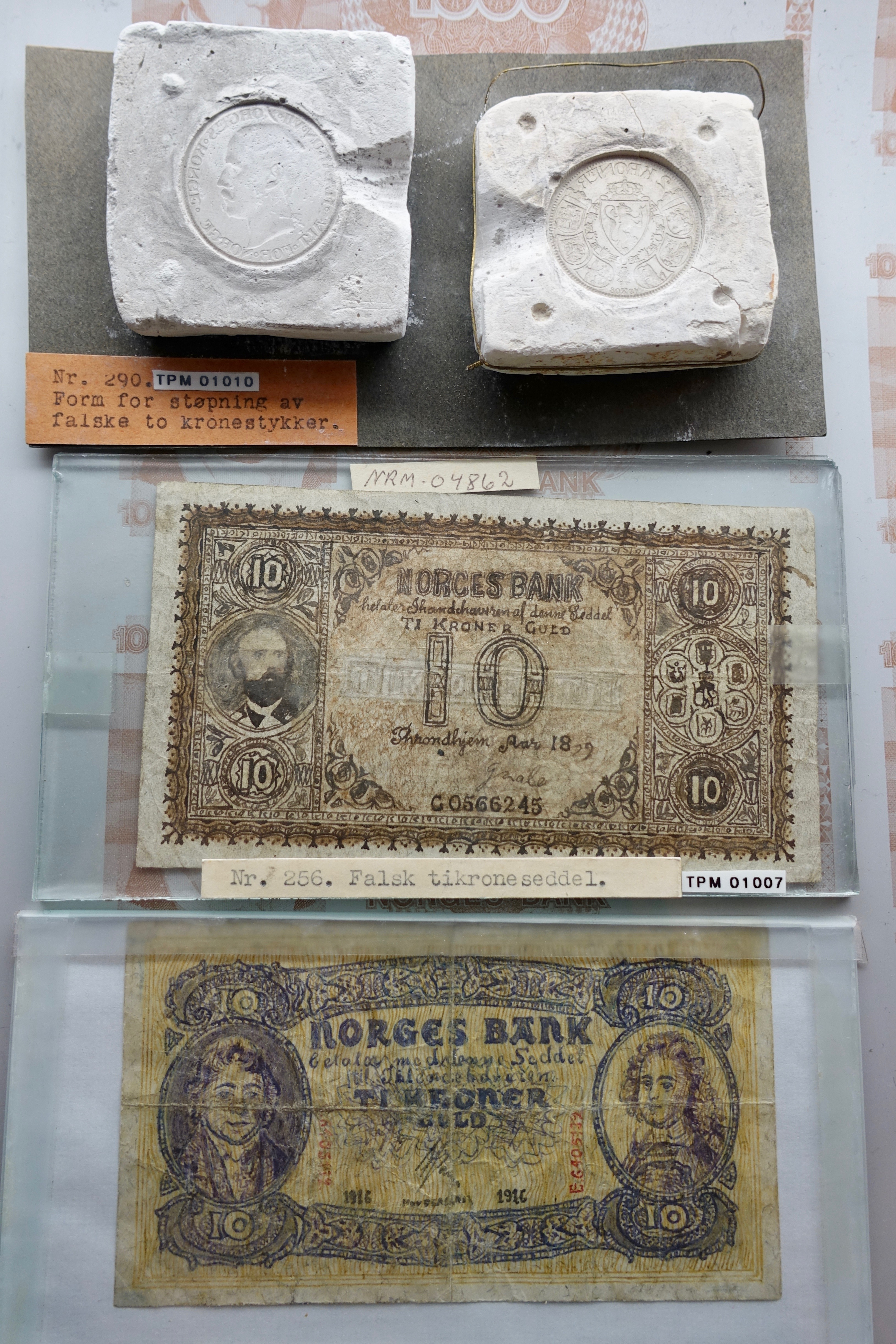 Counterfeit money etc. in Norway exhibited at the Norwegian National Museum of Justice (Justismuseet i det tidligere Kriminalasylet) in Trondheim: "Falsk tikroneseddel; form for støpning av tokronemynt." Photo taken on 4th April 2019.